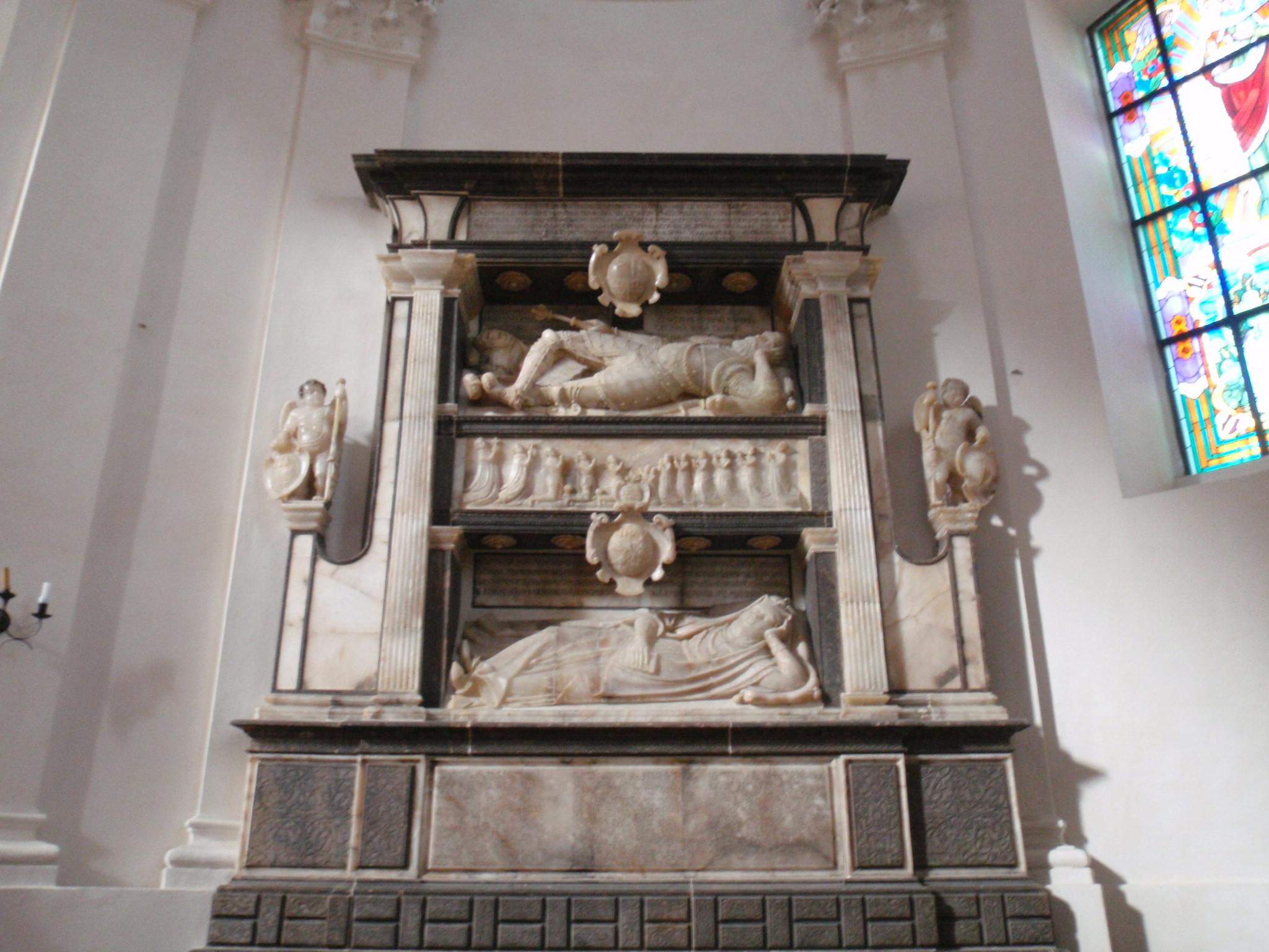 Saint Lawrence church in Rymanów